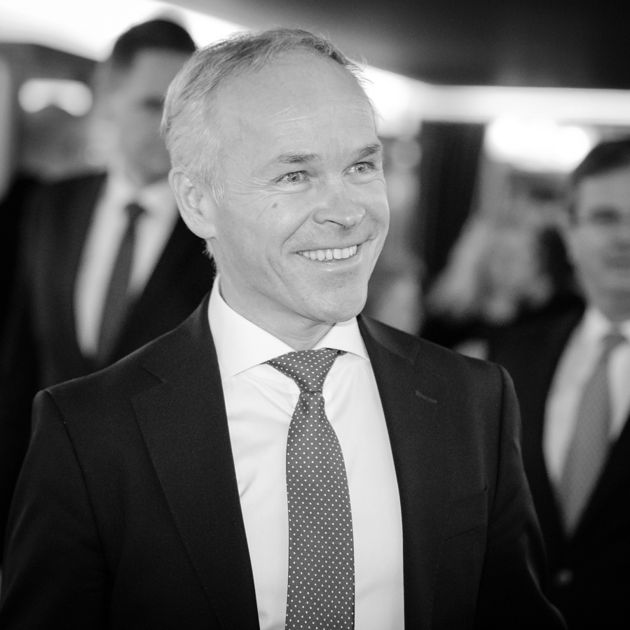 Jan Tore Sanner at Governor Øystein Olsen's annual address in February 2018